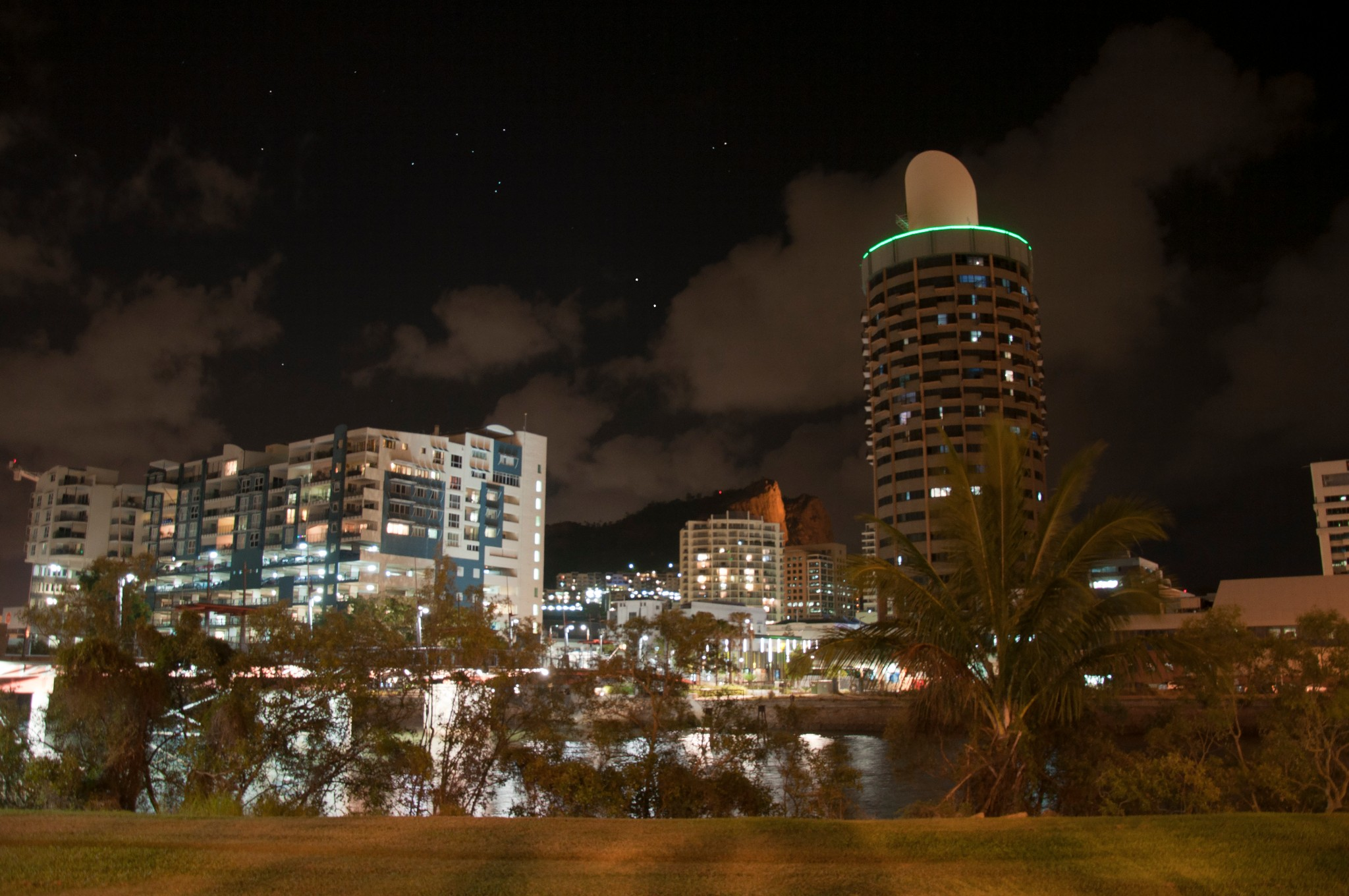 A view of Townsville's CBD with Ross Creek in the foreground and Castle Hill in the background.